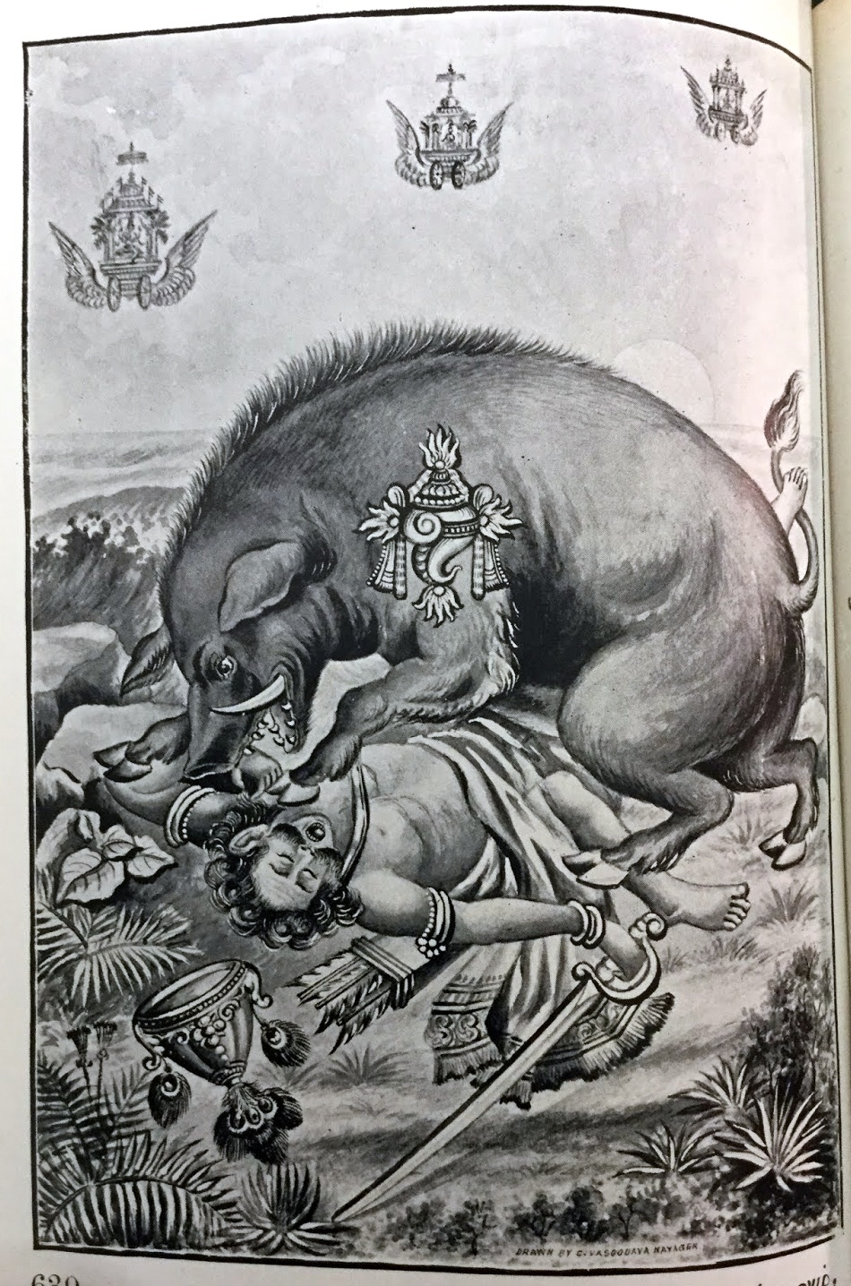 BHAGAVATA PURANA- RARE PICTURES